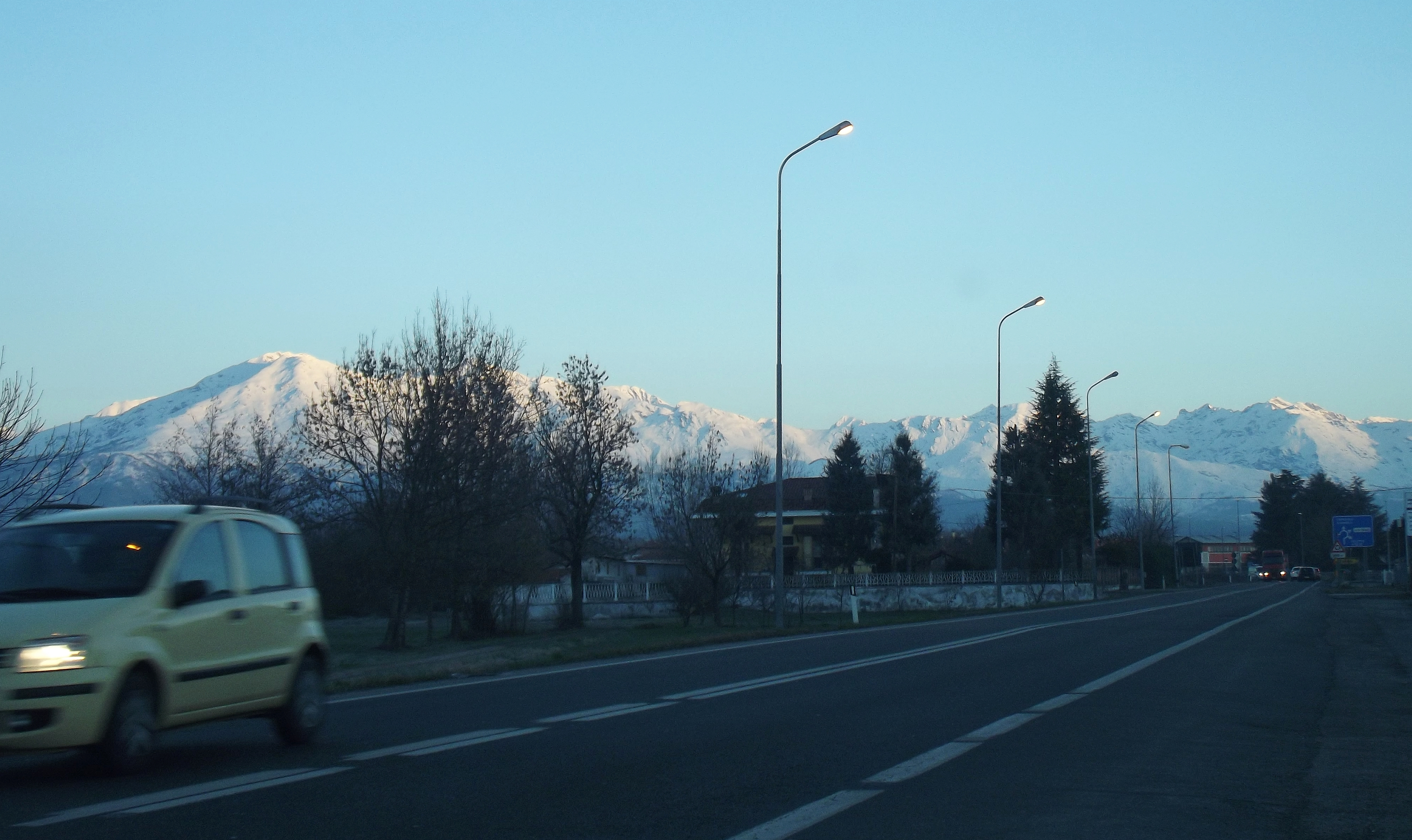 Former national road nr.460 between Feletto and Rivarolo Canavese (TO, Italy); in the background the Graian Alps